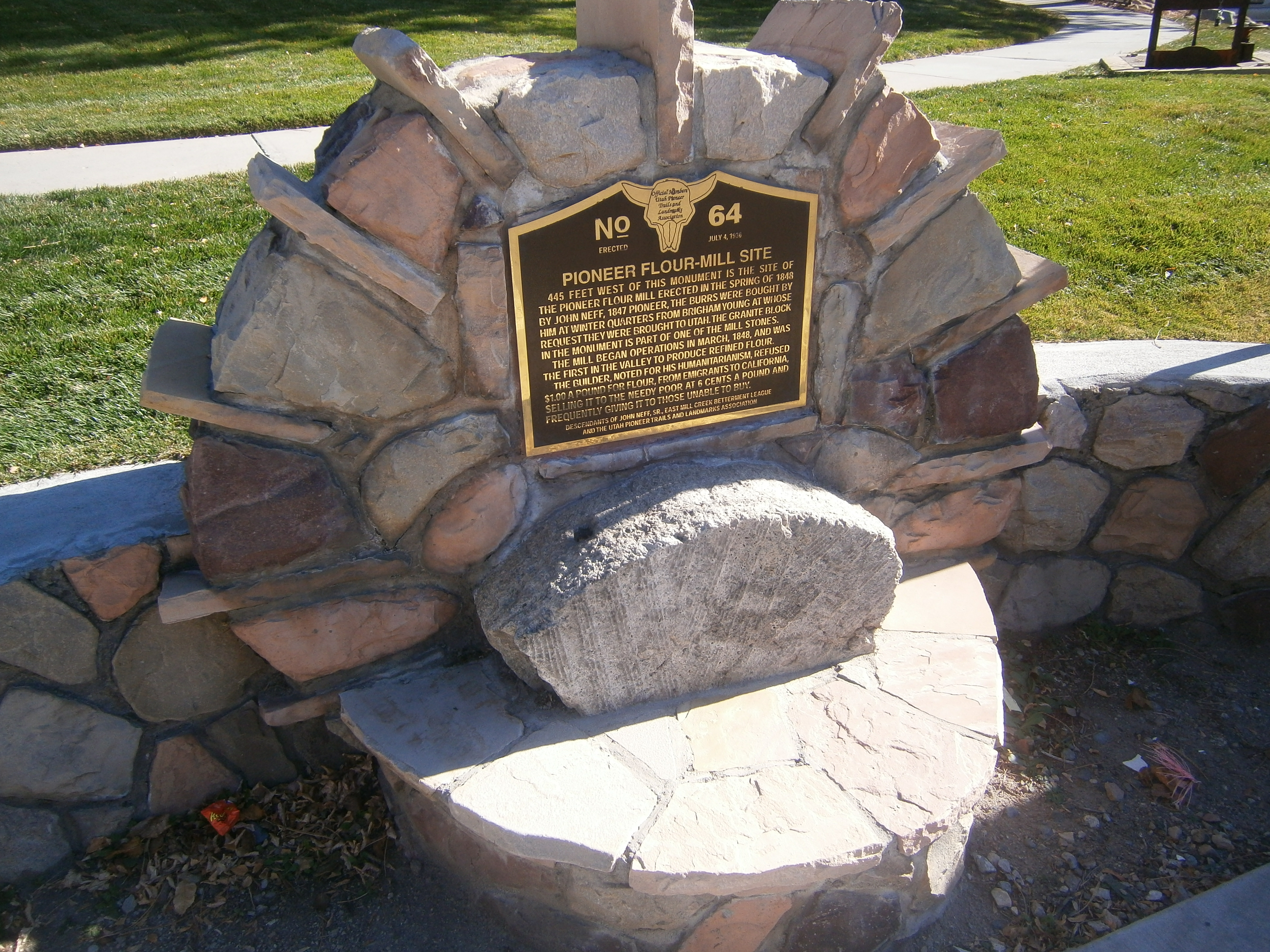 This 1936 historical marker is located at approximately 2700 E. Evergreen Avenue, Millcreek, Utah, United States. A contributing property in the Evergreen Avenue Historic District, it contains a piece of millstone, dating from 1848, from the first gristmill in the Salt Lake Valley.